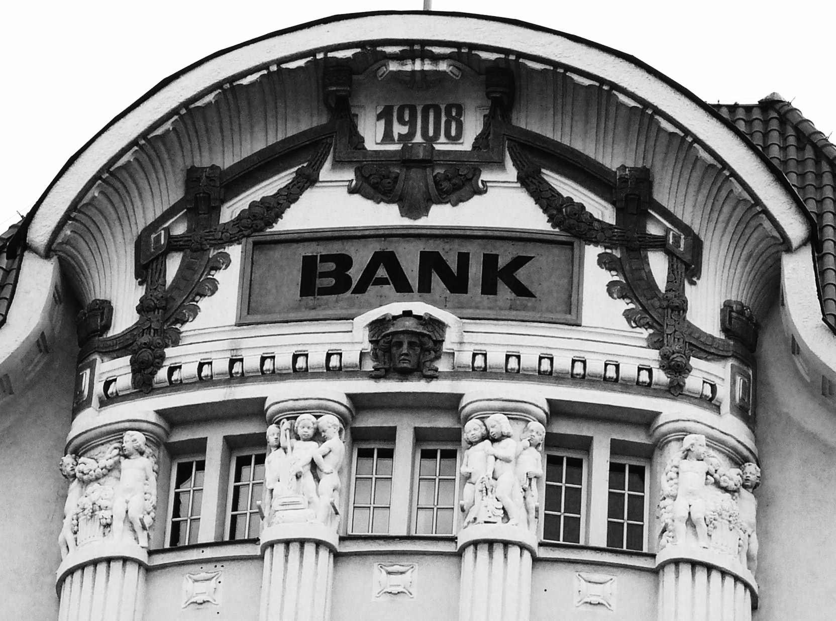 Poznan, formerly Haase House.